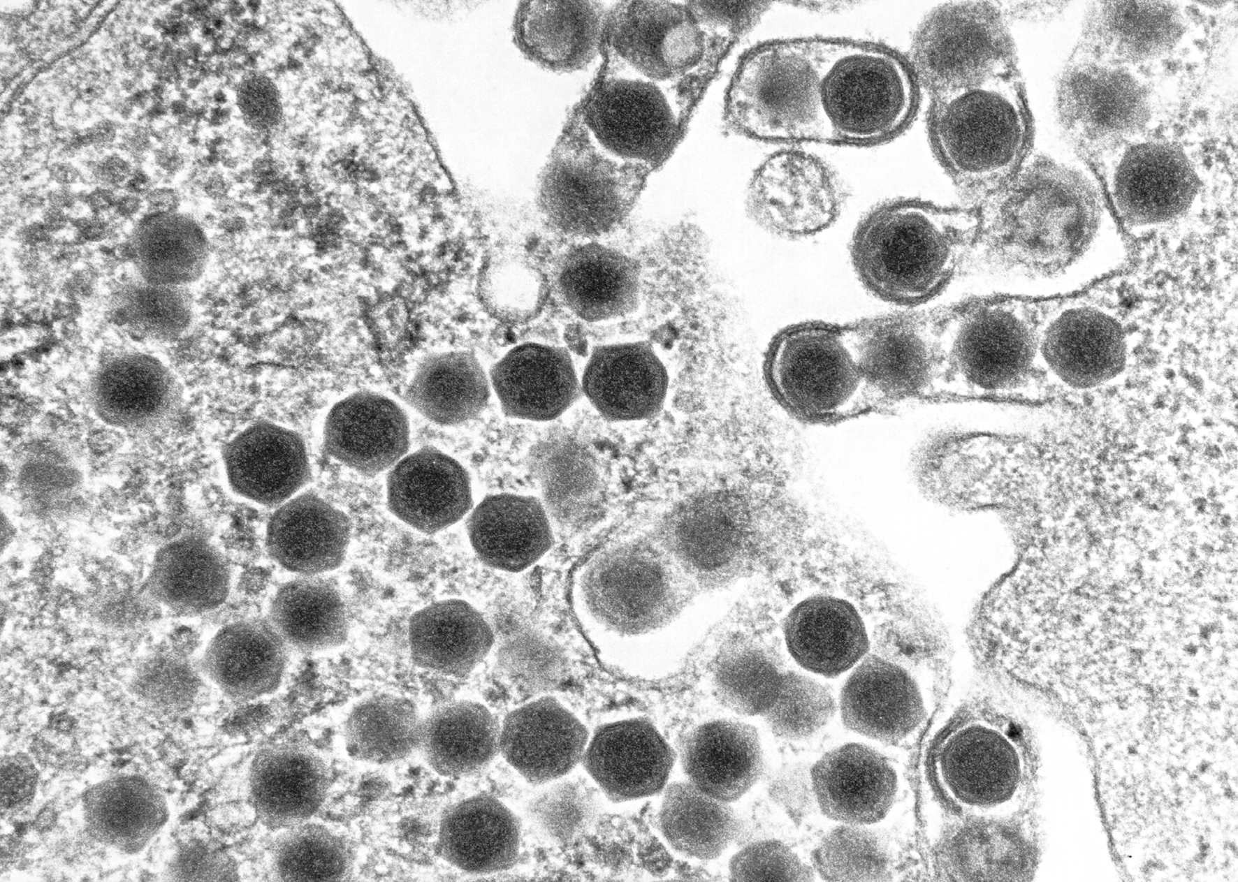 Ranaviruses are pathogens of fish, amphibians and reptiles. They are of concern to commercial freshwater fisheries and cause infections in frogs and toads around the world. This slide shows a transmission electron micrograph of ranaviruses gathering close to the cell border where they can be seen leaving the cell via a process called budding. Image produced by Electron Microscopy Unit, Australian Animal Health Laboratory.